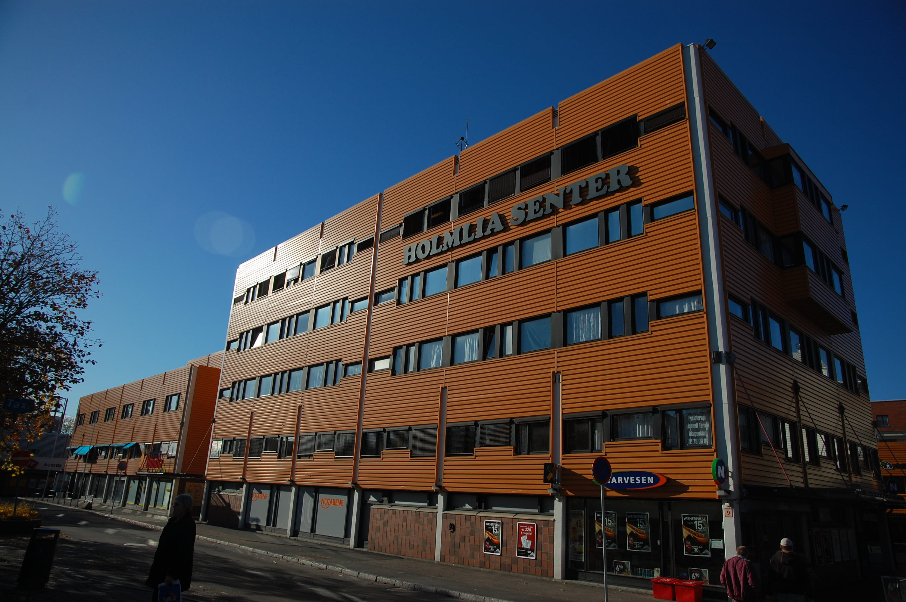 Holmlia in Oslo